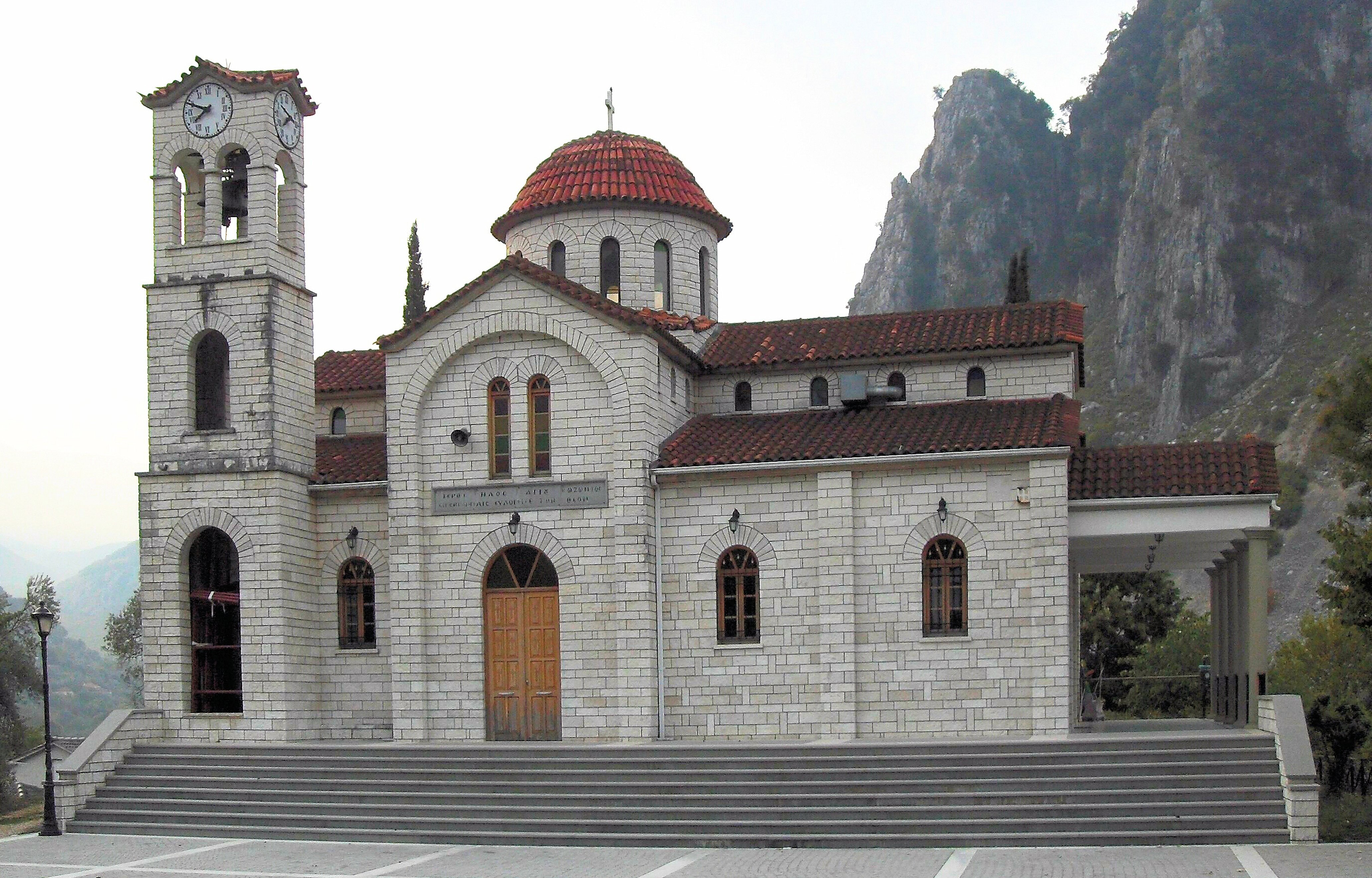 Church in Potamia village, municipality of Dodoni